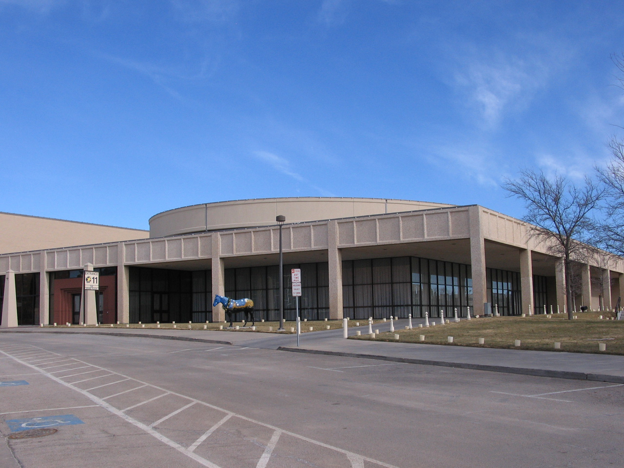 The uploader is the photographer. The place is Amarillo, Texas in front of their Civic Center building.